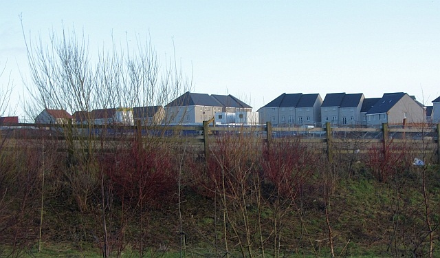 New houses, Ravenscraig site